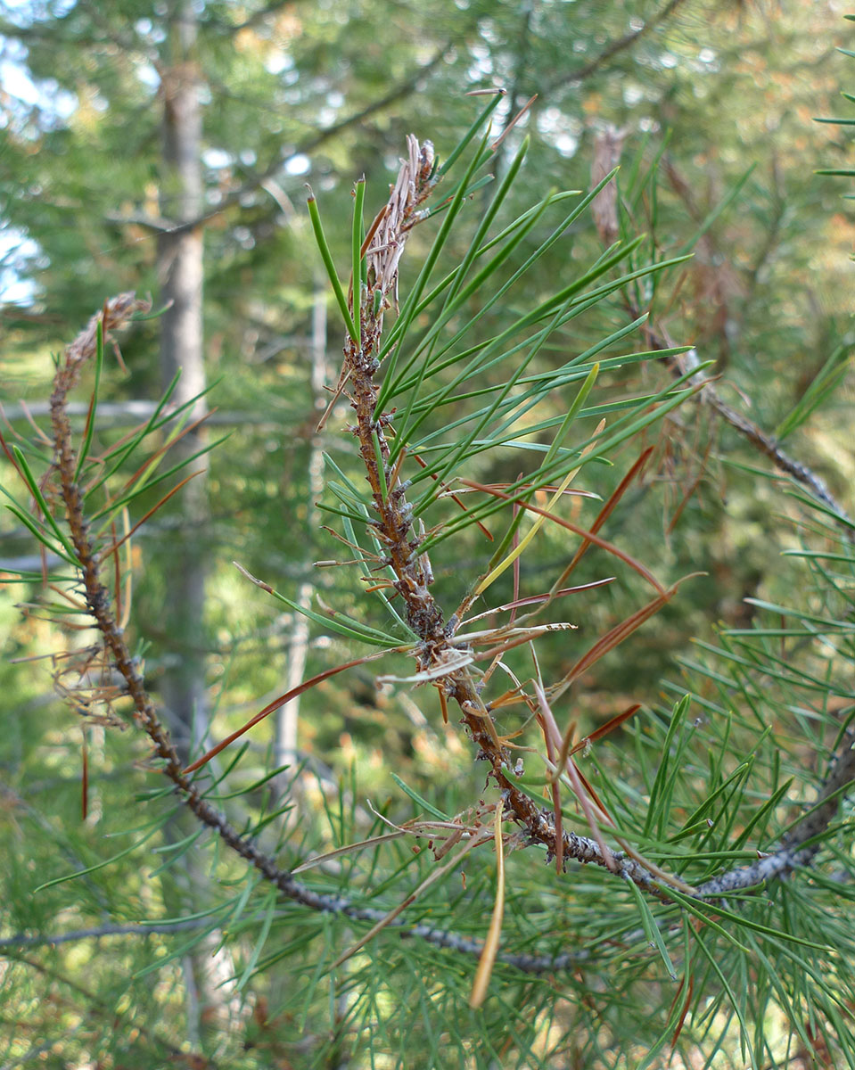 Pinus contorta var. latifolia defoliated by western spruce budworm (Choristoneura freemani) near Blewett Pass summit, Chelan County Washington